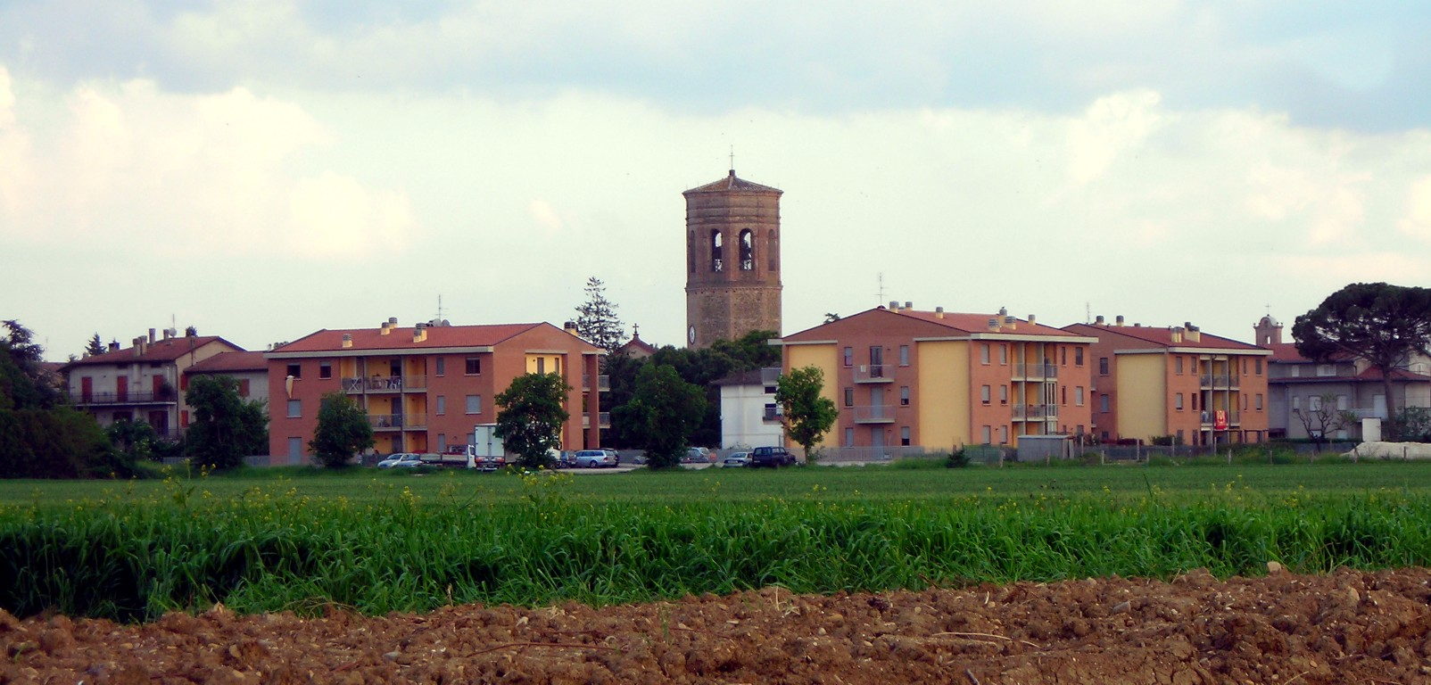 panorama of San Nicolo di Celle with the bell tower, Deruta, Perugia, Umbria, Italy